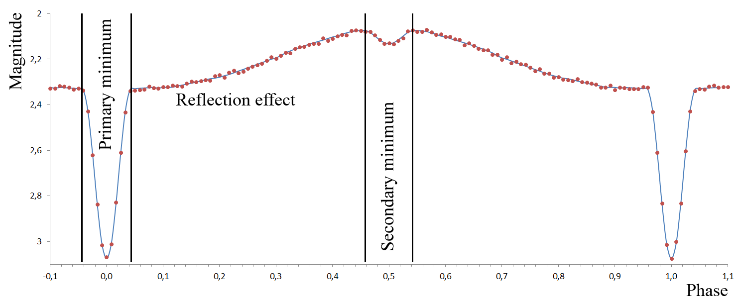 Light curve of a pre-cataclysmic binary star illustrating a strong reflecton effect. Simulated observations (asterisks) with a model light curve